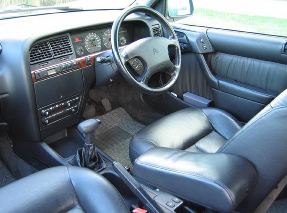 Xantia Dashboard RHD